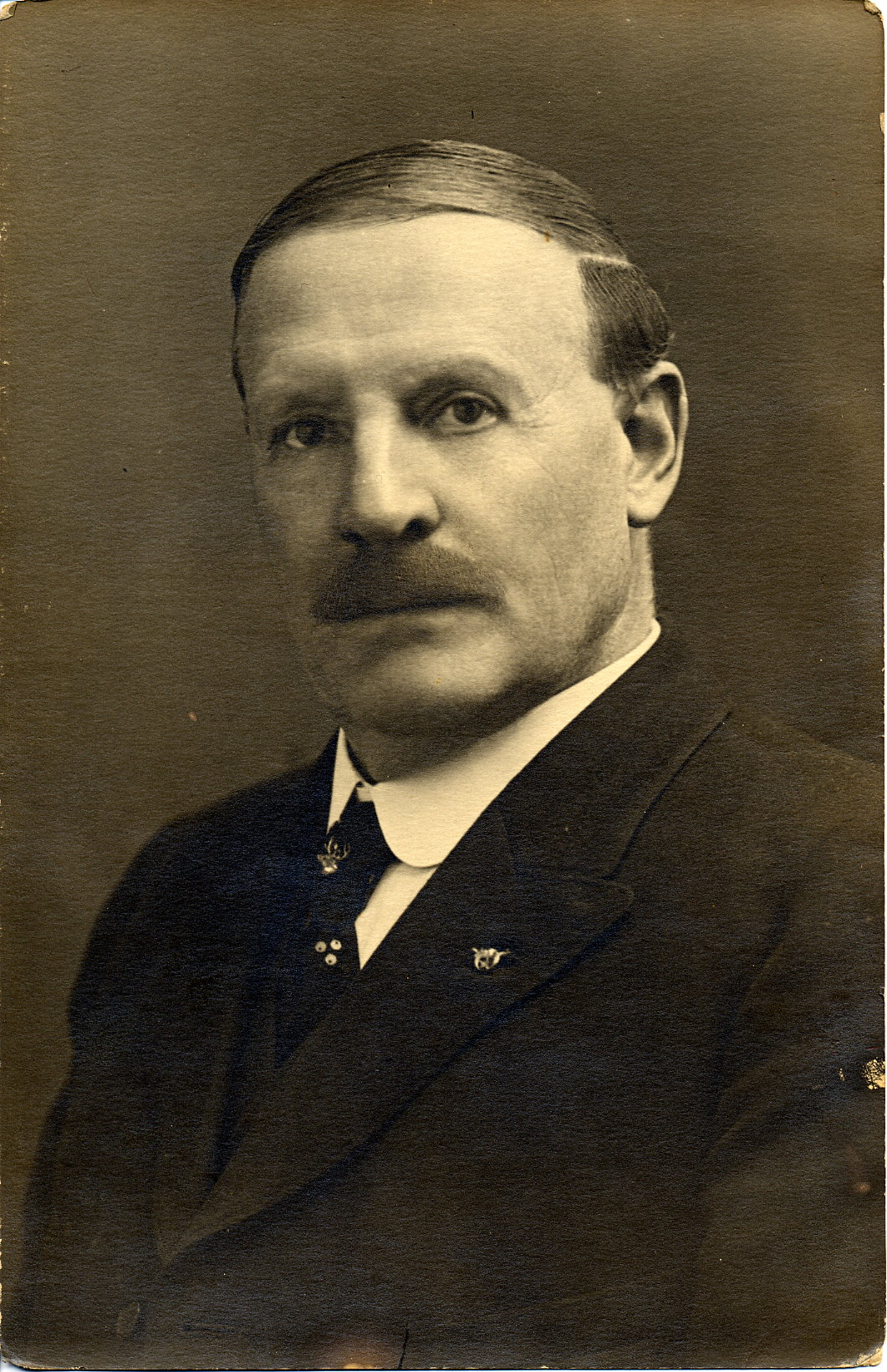 A studio photo portrait of O.P. Hoff. Hoff was the first commissioner of the bureau of labor of Oregon. He was appointed in 1903